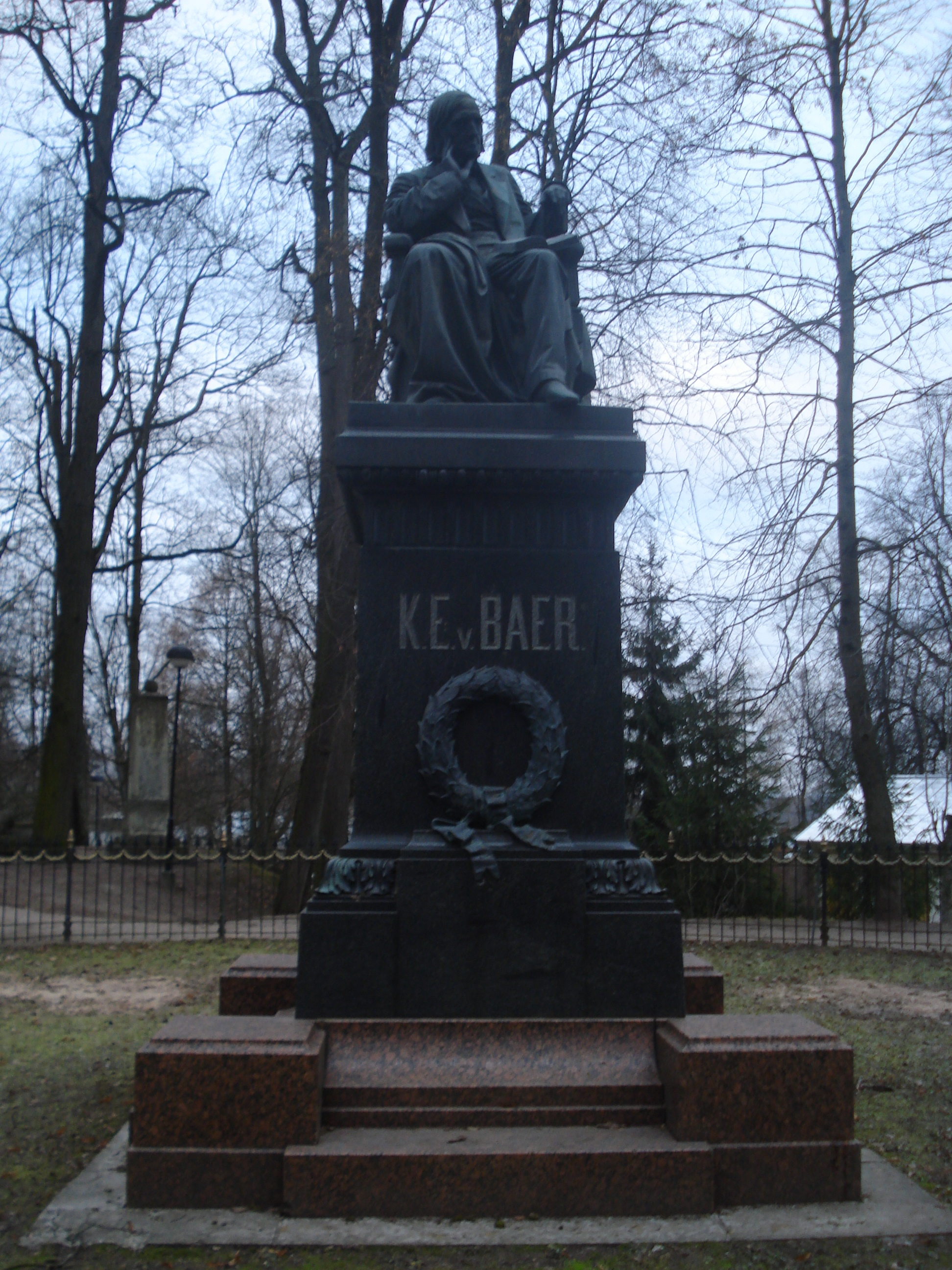 Monument in memory of Karl Ernst von Baer (1792—1876) in Tartu by Russian sculptor Alexander Opekushin (1838—1923)